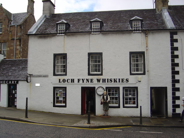 Whisky shop in Inveraray.